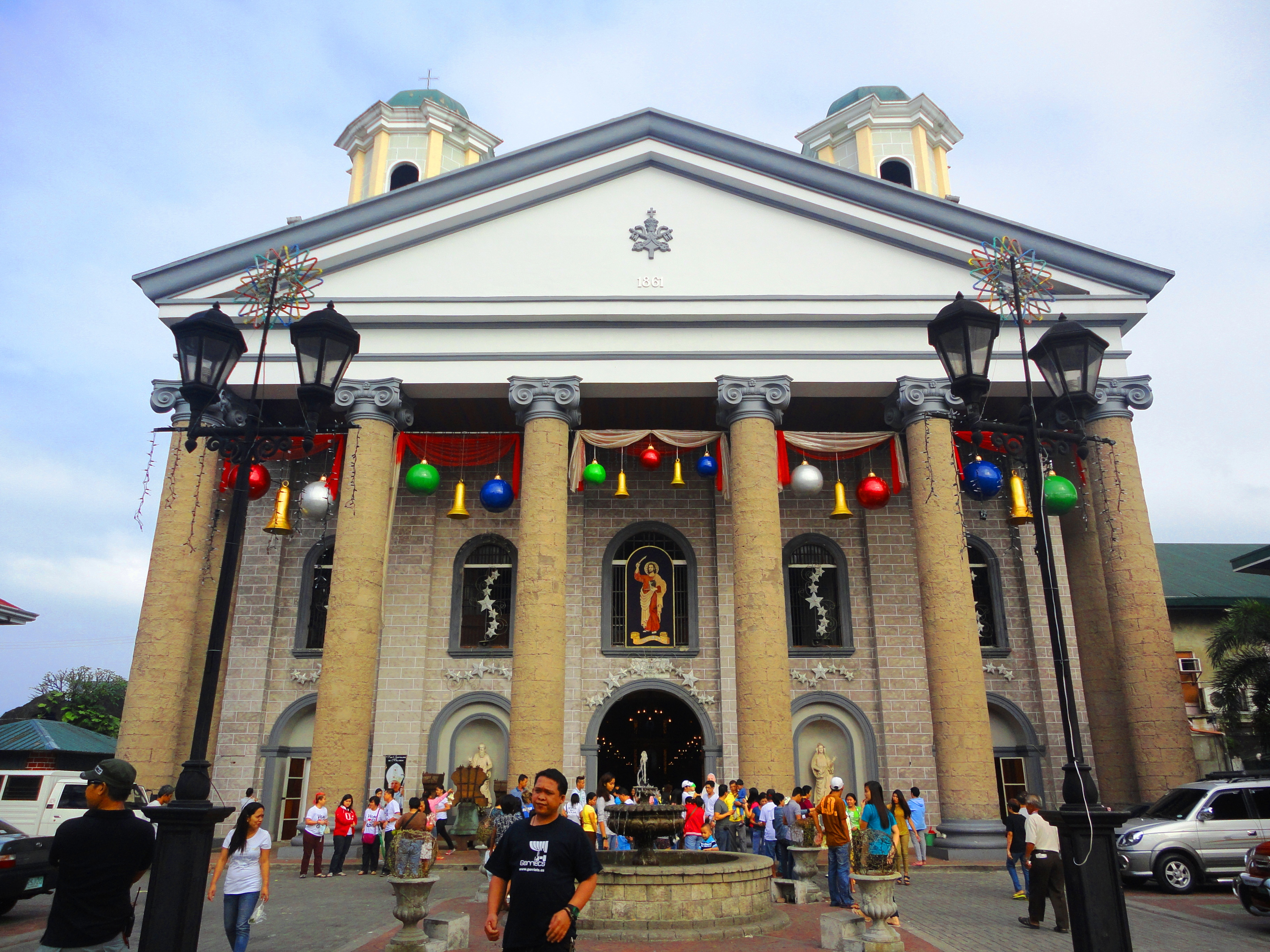 church facade